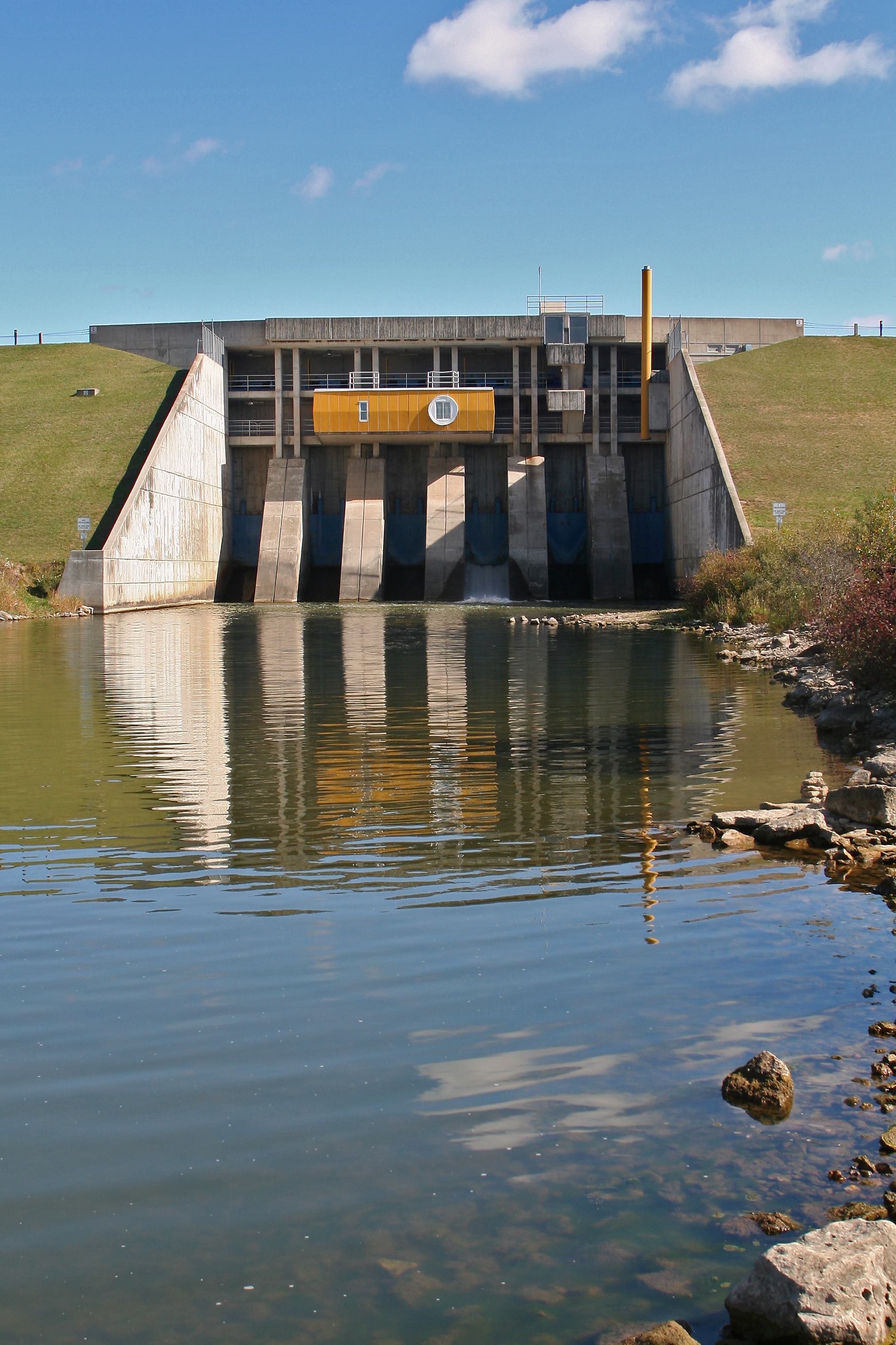 Dam on Speed River in Guelph, Ontario